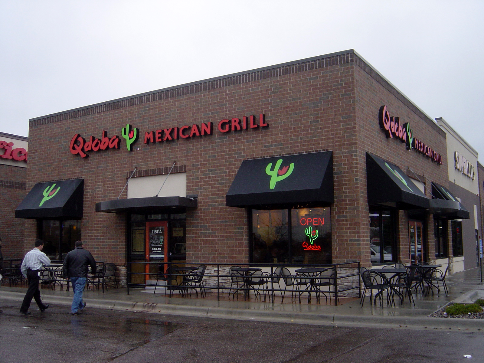 Photo taken by Bobak Ha'Eri. November 15, 2005. Please observe license and properly cite in use outside Wikipedia.